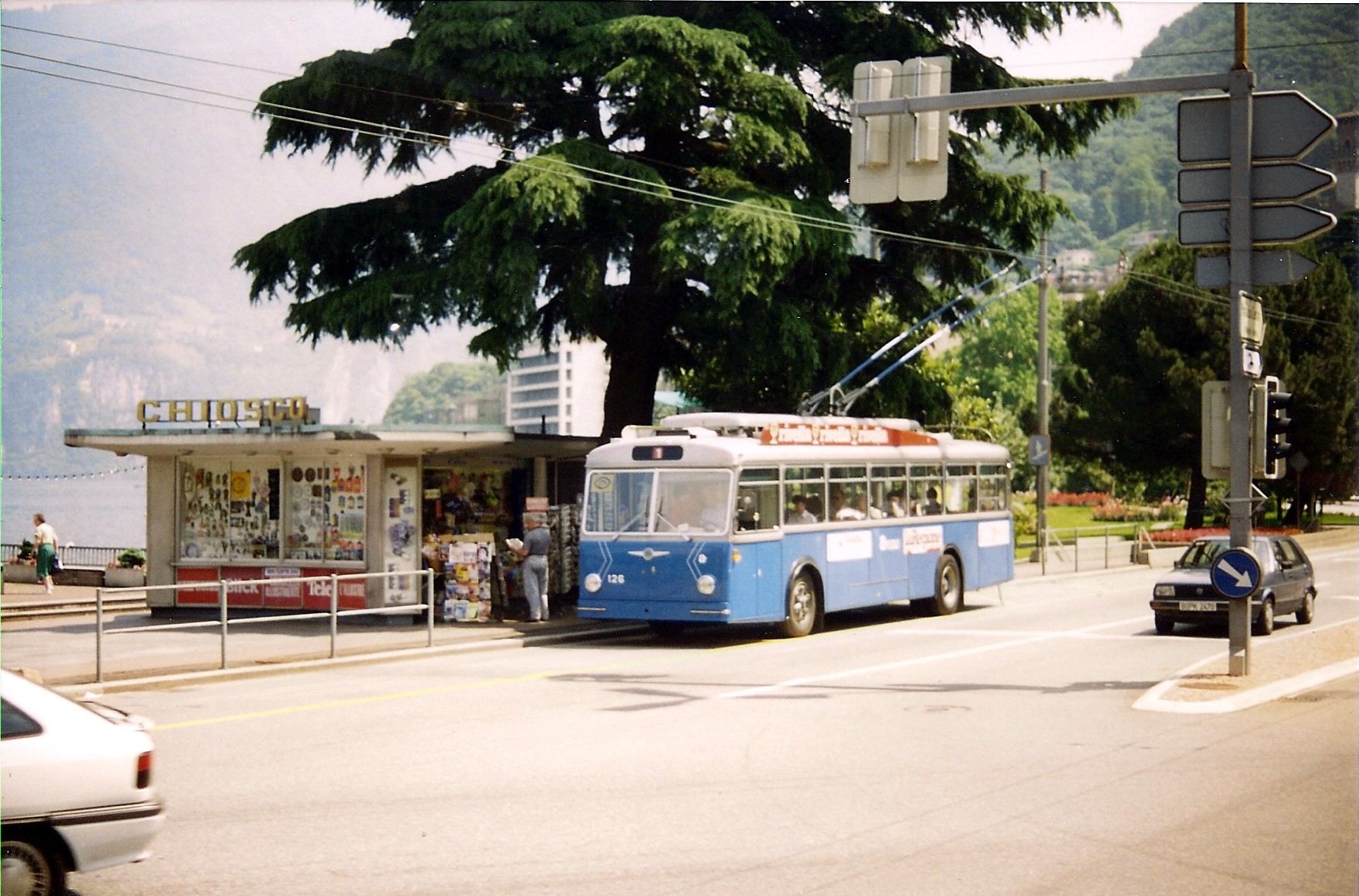 Lugano trolleybus 126, a Hess-bodied FBW built in 1966, was originally purchased new by the Rheintal (Rhine Valley) system, in Alstätten, where it was No. 6. After that system closed in 1977, No. 6 was sold in 1978 to Lugano, becoming No. 126 there.